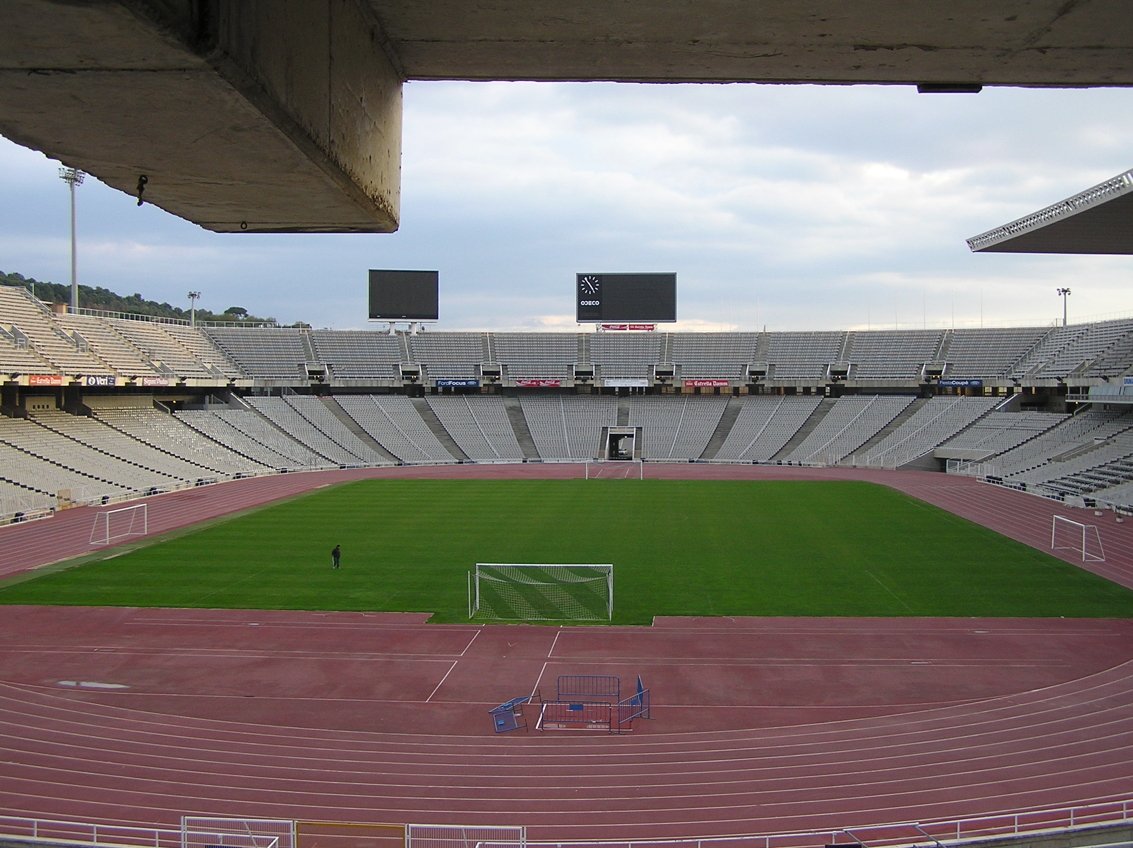 Estadi Olímpic Lluís Companys, the Olympic Stadium on the Montjuïc in Barcelona.